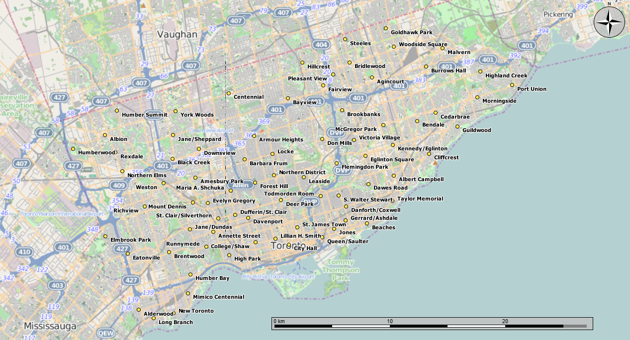 Map showing the various branches of the Toronto Public Library system as of 2014. KML taken from the City of Toronto website